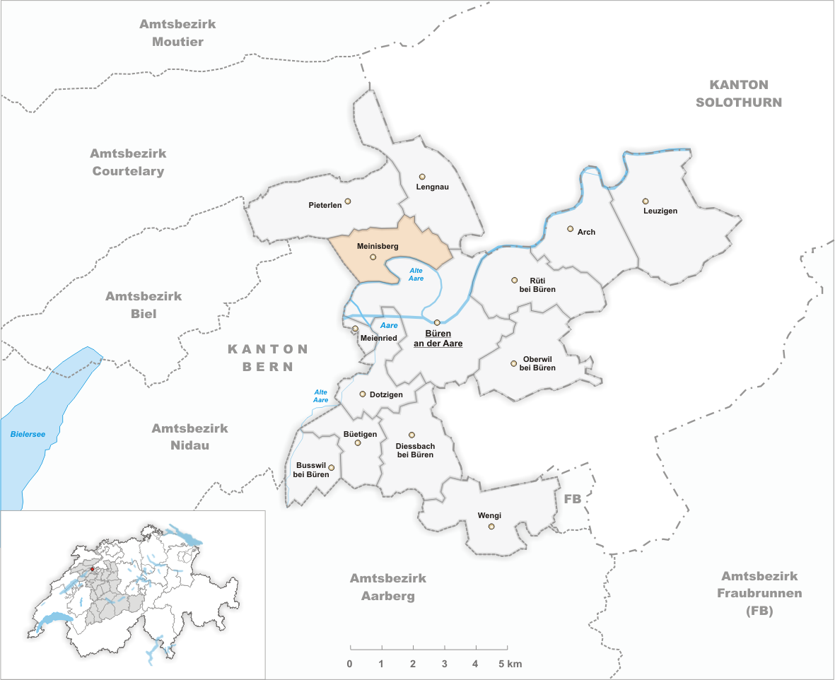 Municipality Meinisberg